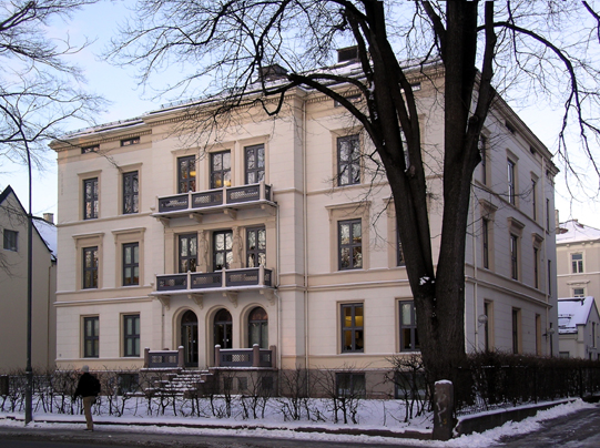 Wergelandsveien 21, Oslo. Built 1866. Architect: Jacob Nordan. Late classicist architecture.